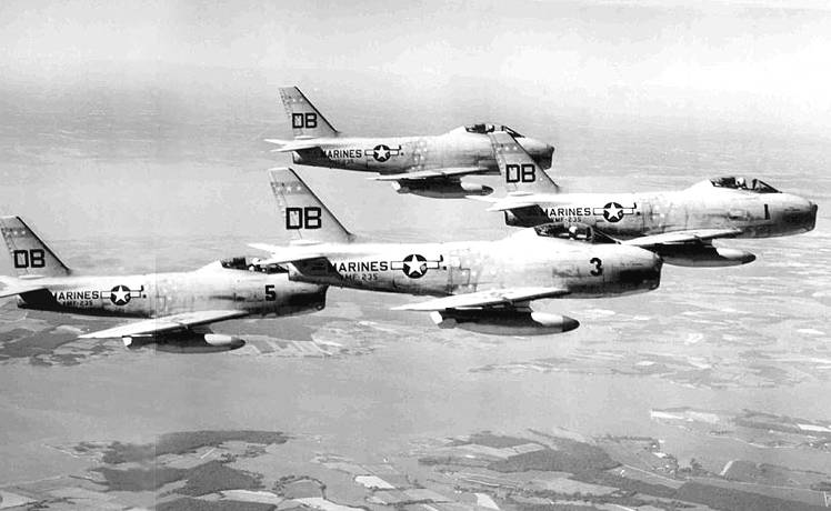 U.S. Marine Corps North American FJ-3M Fury fighters of Marine fighter squadron VMF-235 Death Angels in the vicinity of Naval Air Station Patuxent River, Maryland (USA), on 27 September 1957. They were a part of a 20 aircraft formation from VMF-235, rehearsing for demonstration of international joint operability involving over 600 aircraft from several countries, taking place from 3 to 5 October 1957.